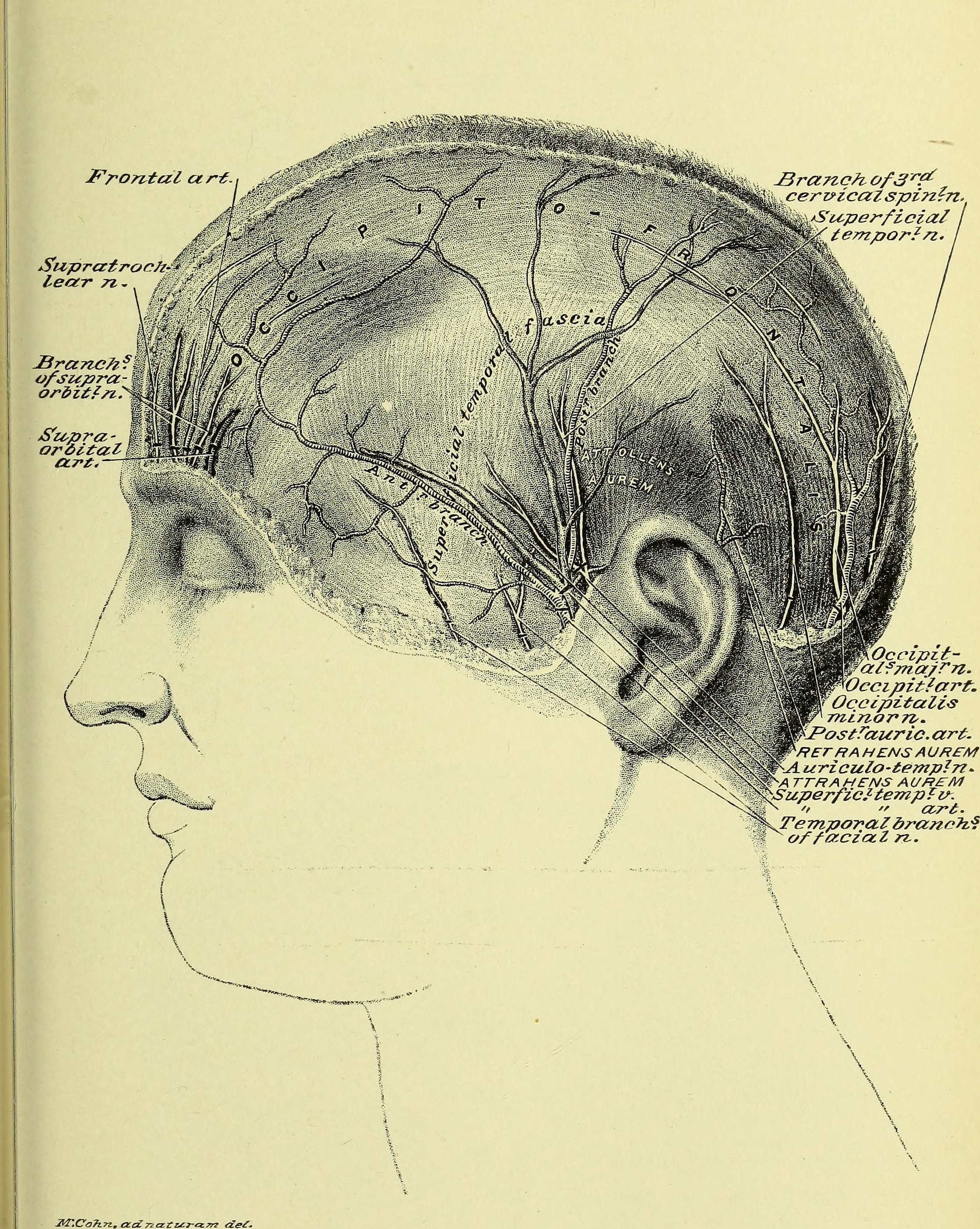 Title: Practical human anatomy (electronic resource) : a working-guide for students of medicine and a ready-reference for surgeons and physicians Year: 1886 (1880s) Authors: Weisse, Faneuil D. (Faneuil Dunkin), 1842-1915 Subjects: Anatomy Dissection Publisher: New York : William Wood Text Appearing Before Image: the tentorium cerebelli; the straight runsantero-posteriorly, in a median-line position, in the junction ofthe base of the falx cerebri with the superior surface of thetentorium cerebelli—it unites the posterior end of the inferiorlongitudinal sinus with the torcular Herophili. The torcularHerophili is the meeting of the superior longitudinal, the rightand left lateral, the right and left occipital (and the straight)sinuses, at the median-line junction of the falx cerebri andtentorium cerebelli, at the interior of the occipital bone. Theinternal jugular vein, attached to the circumference of the ex-terior of the posterior portion of the foramen lacerum posterius,presents its orifice to receive the blood collected by the intra-cranial sinuses of a side of the cranium. 37. Ophthalmic Artery.—This artery is given off from theintracranial portion of the internal carotid artery ; it runs in-feriorly to, and into the orbit by the optic foramen with, theoptic nerve (page 325). PLATE 177 Text Appearing After Image: PLATE 178 Fig.1